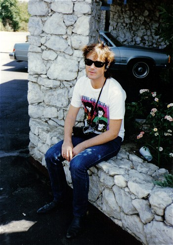 Subject: Steve Kilbey of The Church Date: 1986 Place: Near Sacramento, California, USA (Unknown motel exterior) Photographer: Andwhatsnext Original 35mm photograph scanned Credit: Copyright (c) 1986 by Nancy J Price